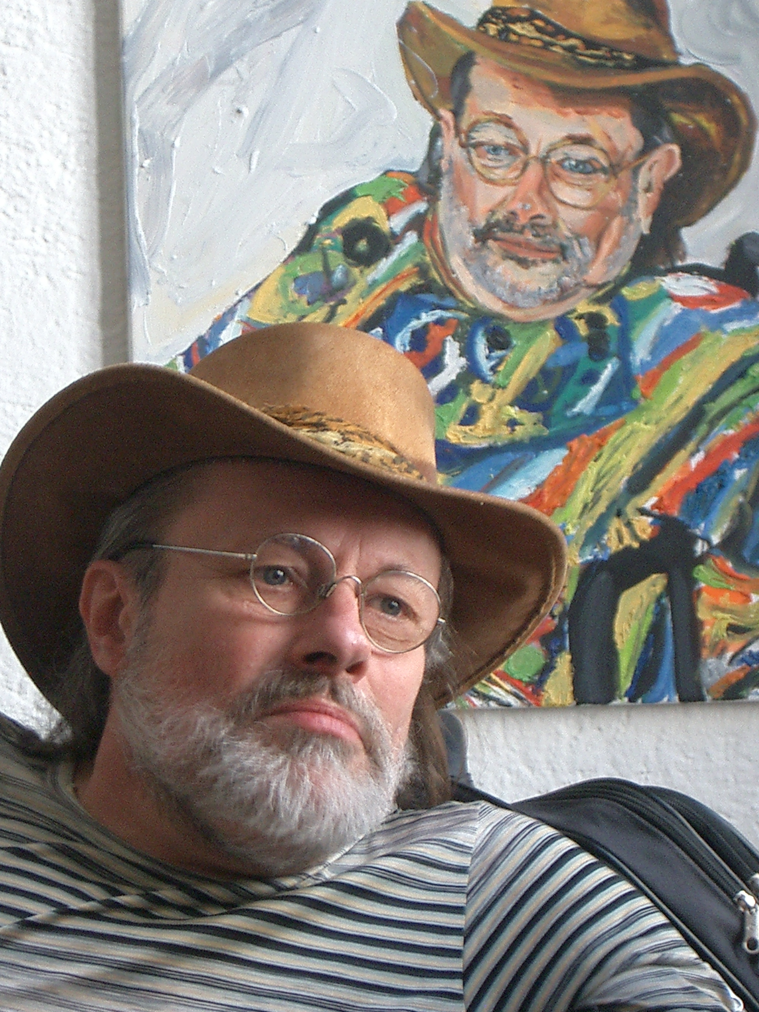 Jazz musician Klaus Kreuzeder, in the back a portrait of him, painted by Kai Feldschur done on commission by the City of Munich originally to honor Kreuzeder at an exhibion in 2008